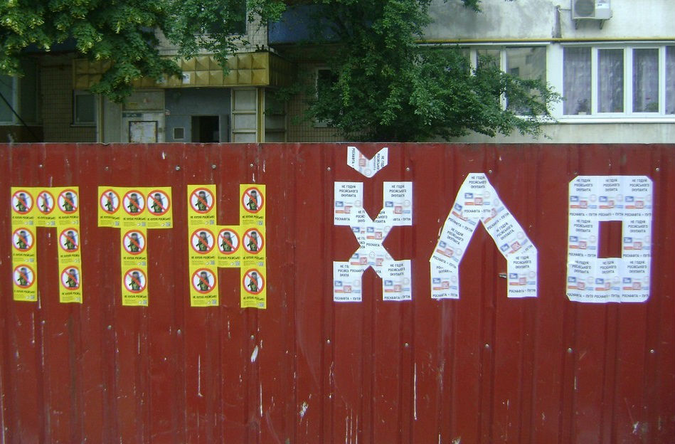 "Putin khuilo!" in traditional abbreviation "ПТН X̆ЛО", made by stickers of campain "Do not buy Russian goods!" on the fence in Brovary, Kyiv region. Elements in an photo, which can be non-free (copyright), retouched. It is in the public domain in accordance with the principle of "Vidsich" "Copyleft" [2].